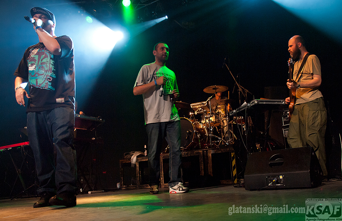 Polish hip-hop group Tabasko